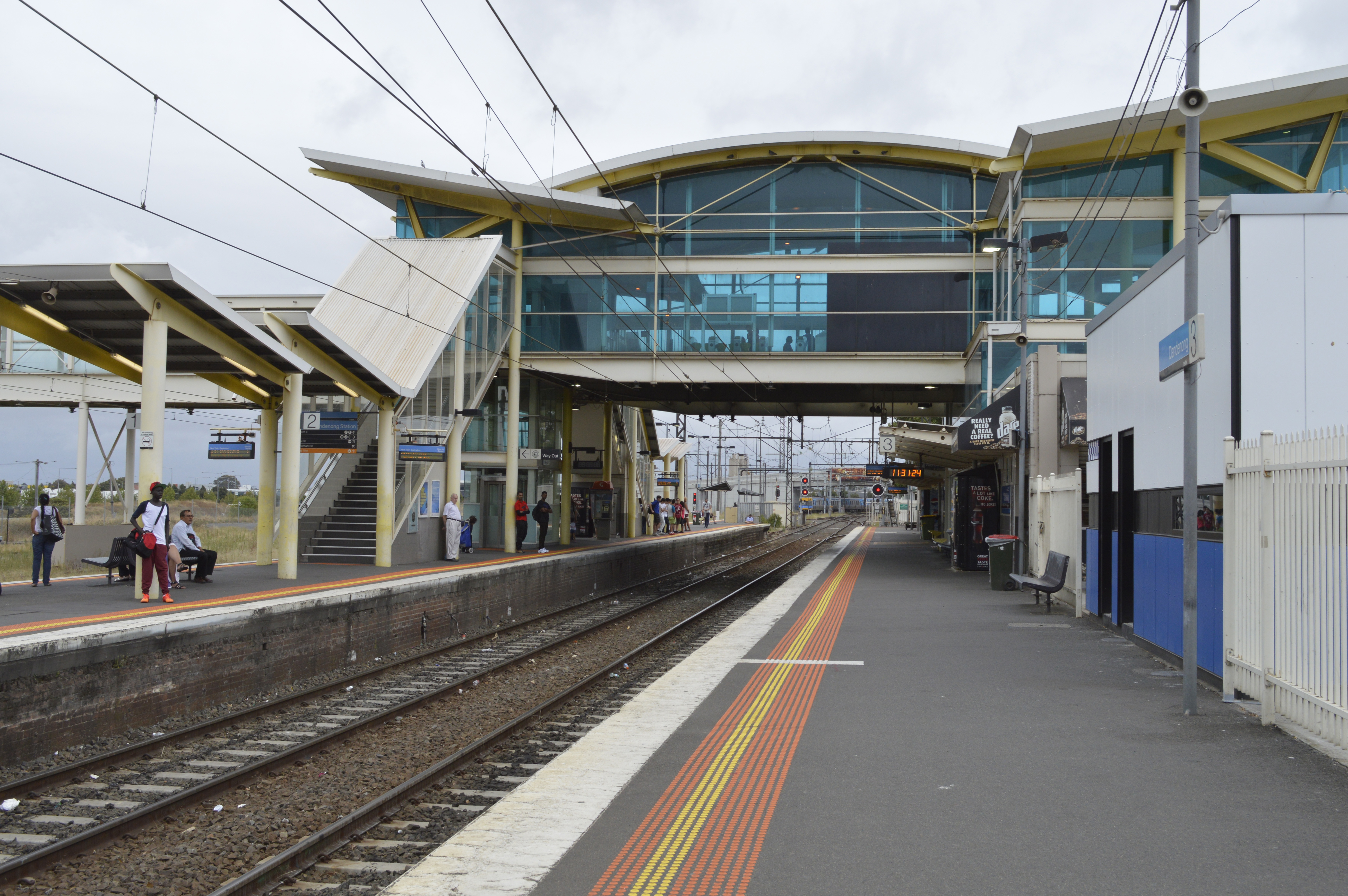 View from platform 3 looking in the Flinders Street direction.